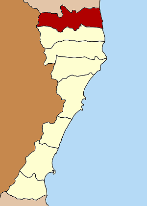 Map of Prachuap Khiri Khan province, Thailand, with the district Hua Hin (อำเภอหัวหิน) highlighted.